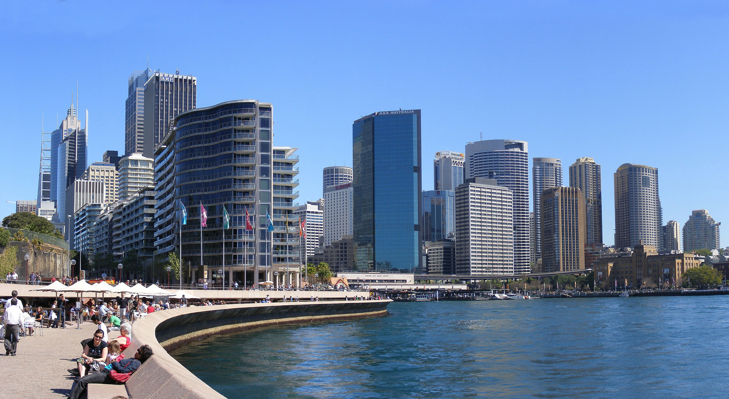 Circular Quay, New South Wales